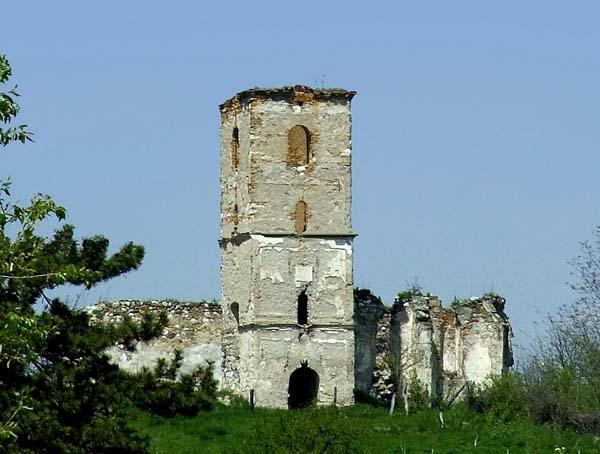 the remains of the church in Borosbenedek (Benic)